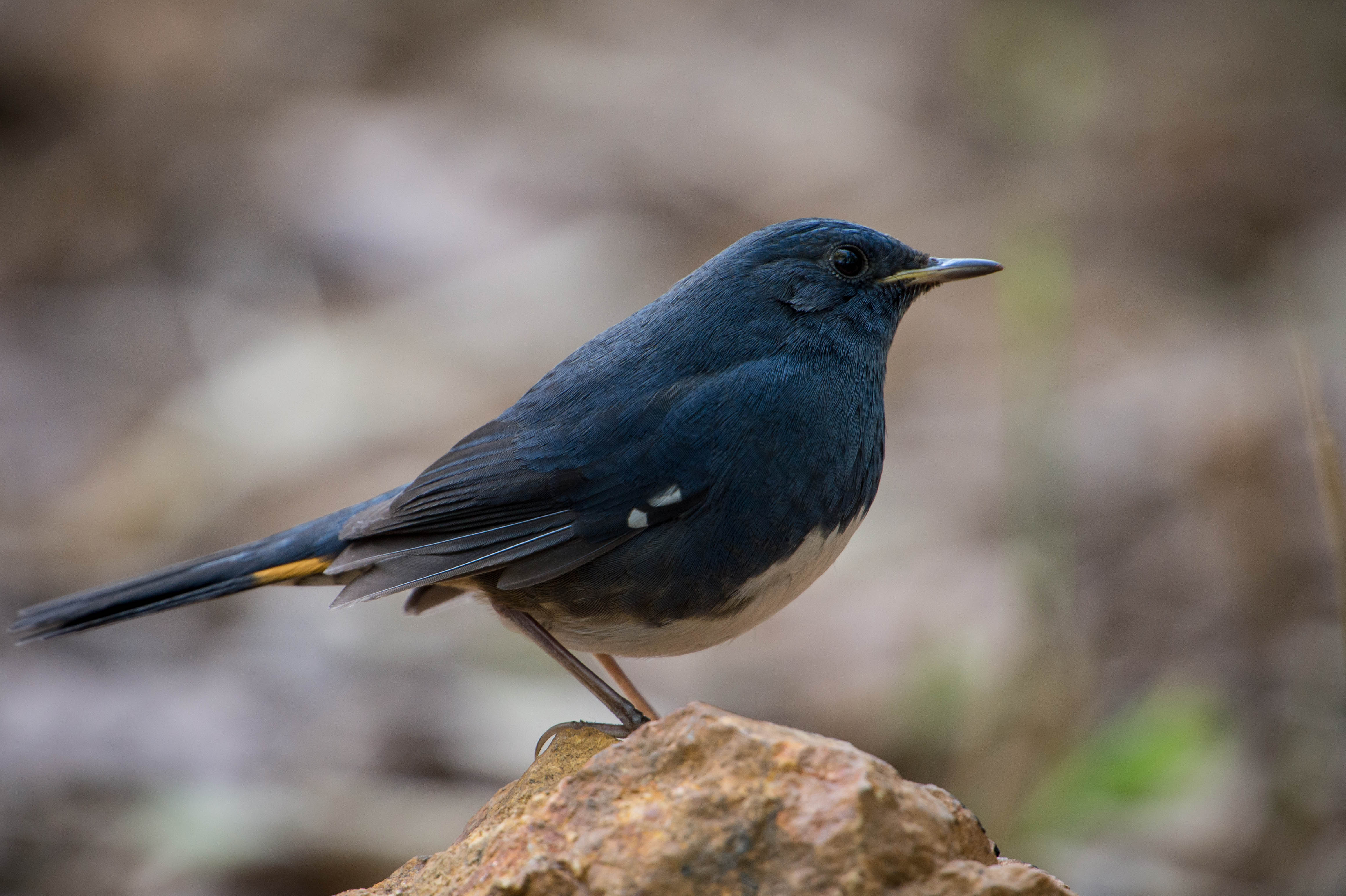 White-bellied Redstart Luscinia phoenicuroides, Mai Fang, Doi Lang, Chiang Mai, Thailand.